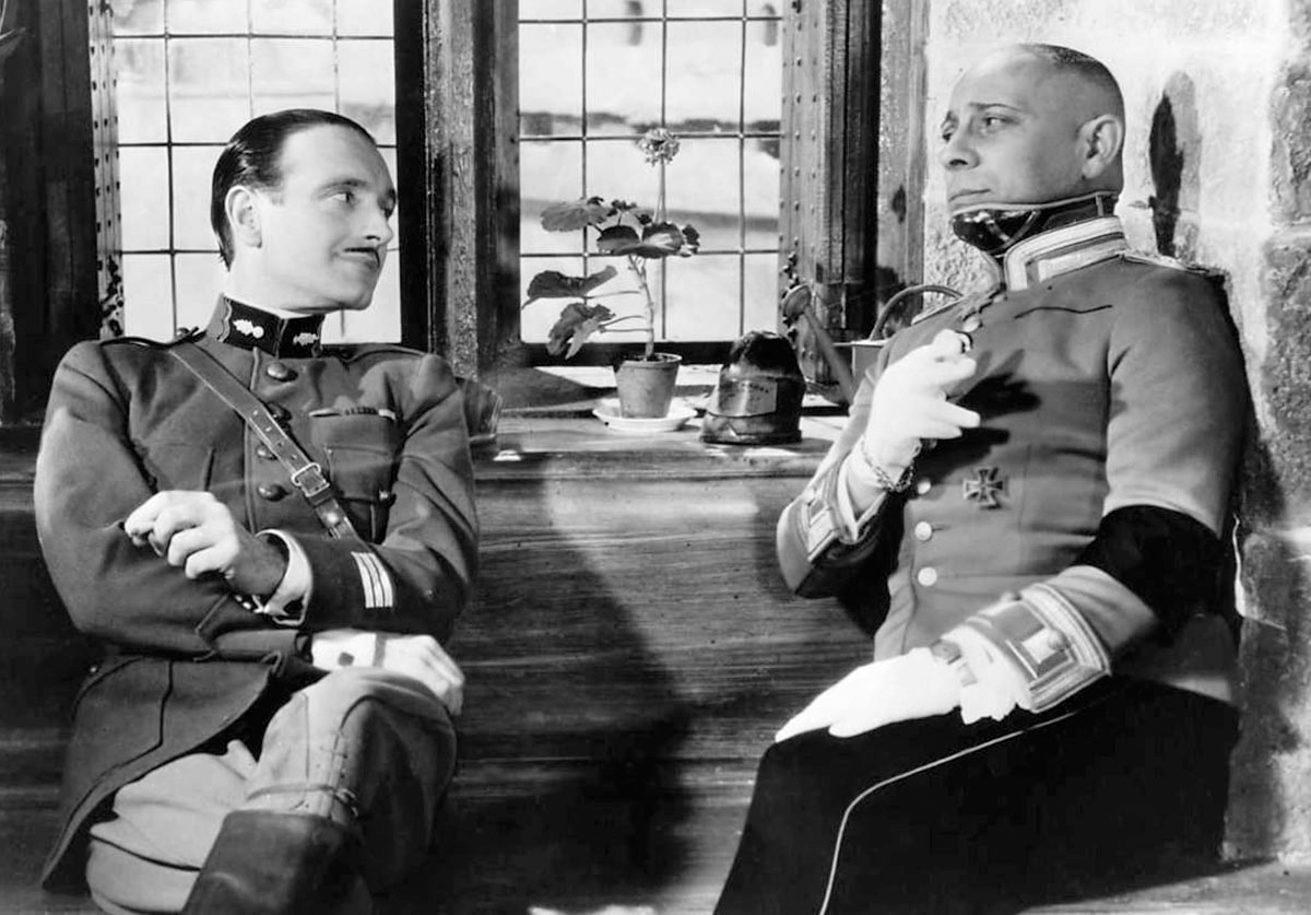 Promotional still from the 1937 film Grand Illusion, published in National Board of Review Magazine. Photograph is numbered GI-3 at lower right.